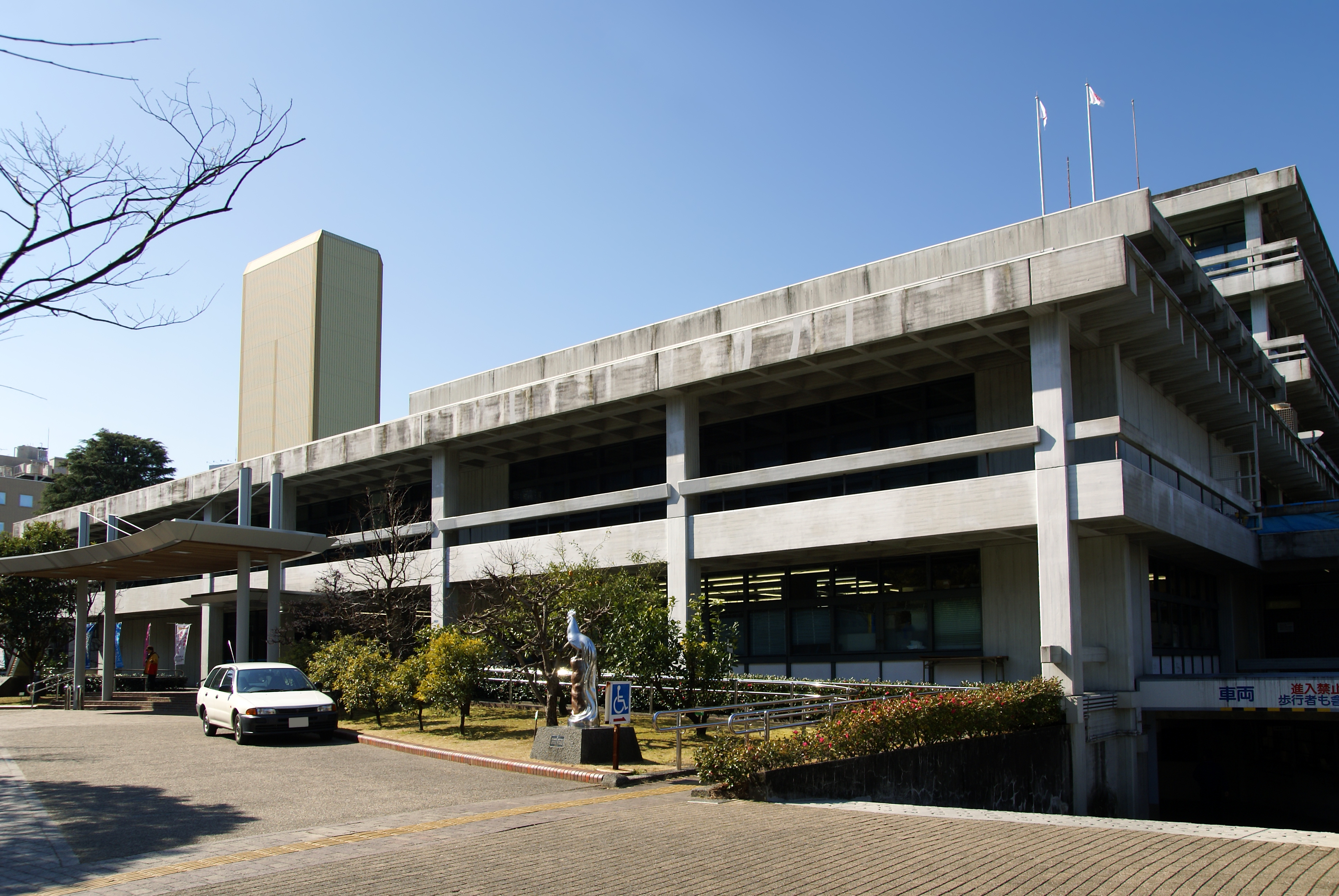 Kochi City Hall in Kochi, Kochi prefecture, Japan